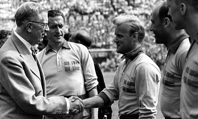 Swedish King Gustaf VI Adolf shaking hands with Lennart "Nacka" Skoglund durin world cup 1958. To left is the team captain Nils Liedholm and to the right i Gunnar Gren and Agne Simonsson.